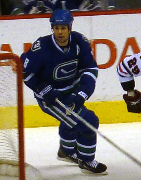 Vancouver Canucks defenceman Willie Mitchell during a game against the Chicago Blackhawks at GM Place on November 22, 2009.